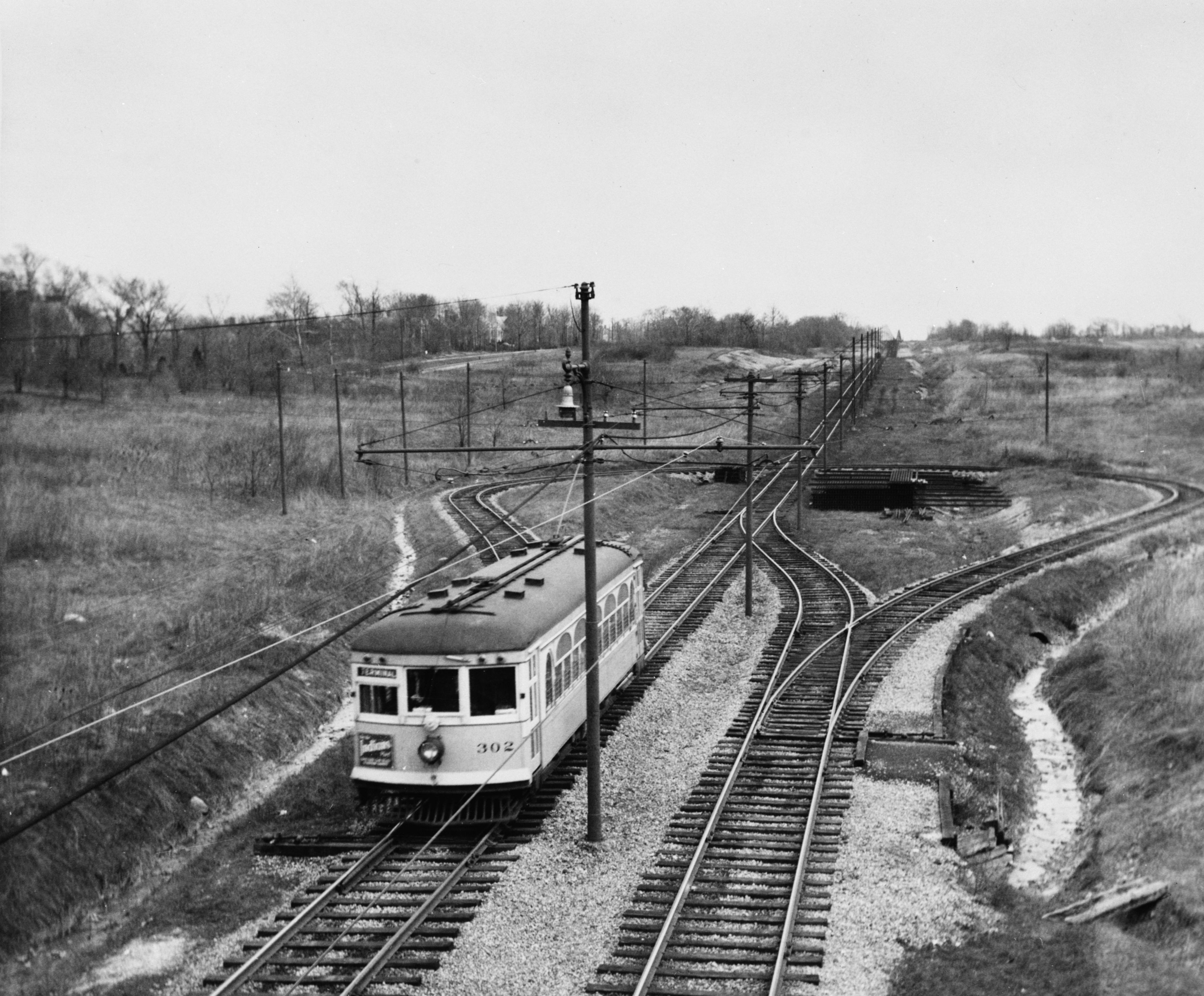 Warrensville Center Road Loop, Shaker Boulevard Line of Rapid Transit in Cleveland, Ohio